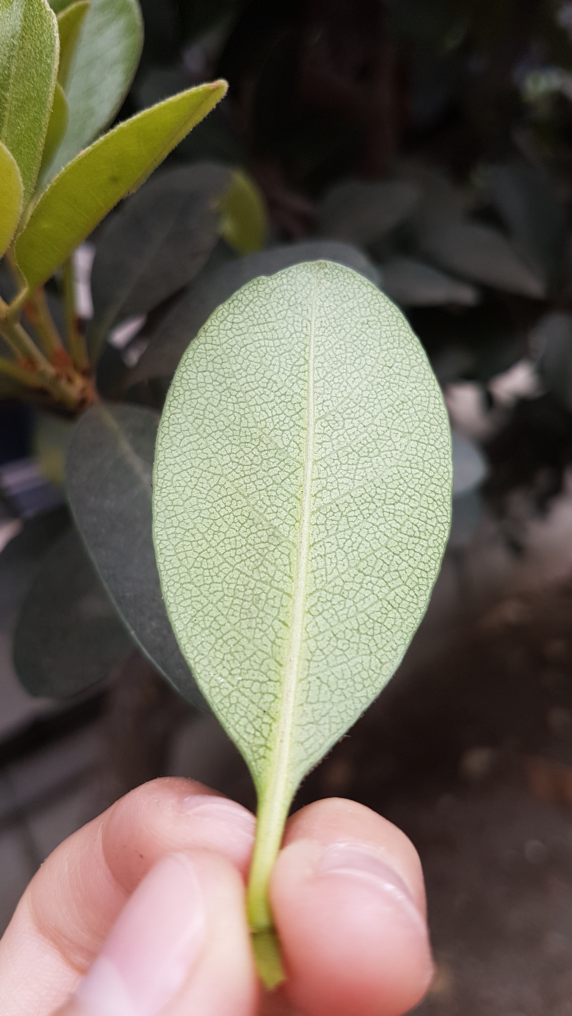 Rhaphiolepis indica var. umbellata leaf